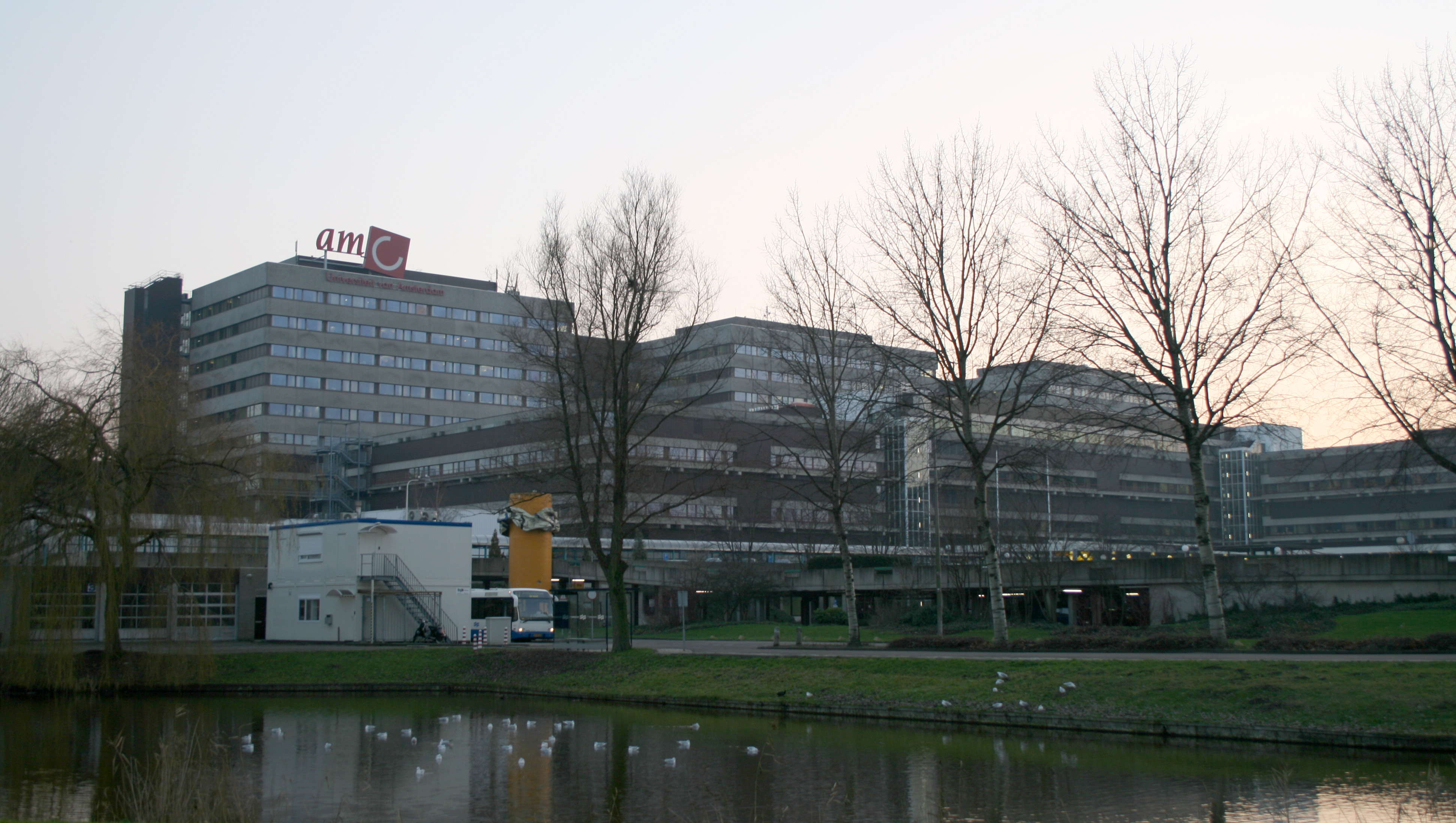 The Academic Medical Center (Dutch: Academisch Medisch Centrum), or AMC, is the university hospital affiliated with the Universiteit van Amsterdam (University of Amsterdam).